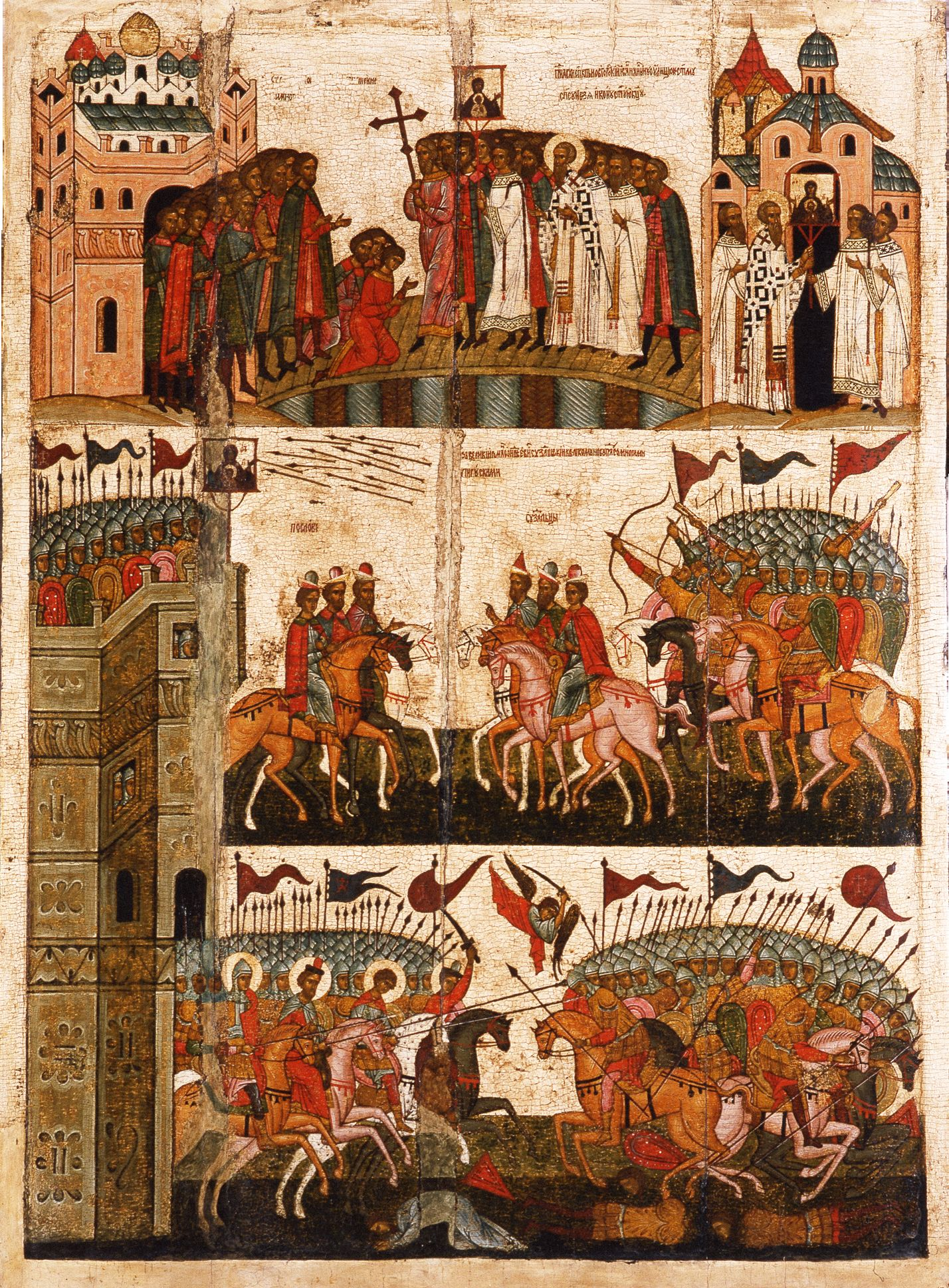 Miracle of the Icon "Virgin of the Sign" (Battle of Novgorod and Suzdal)